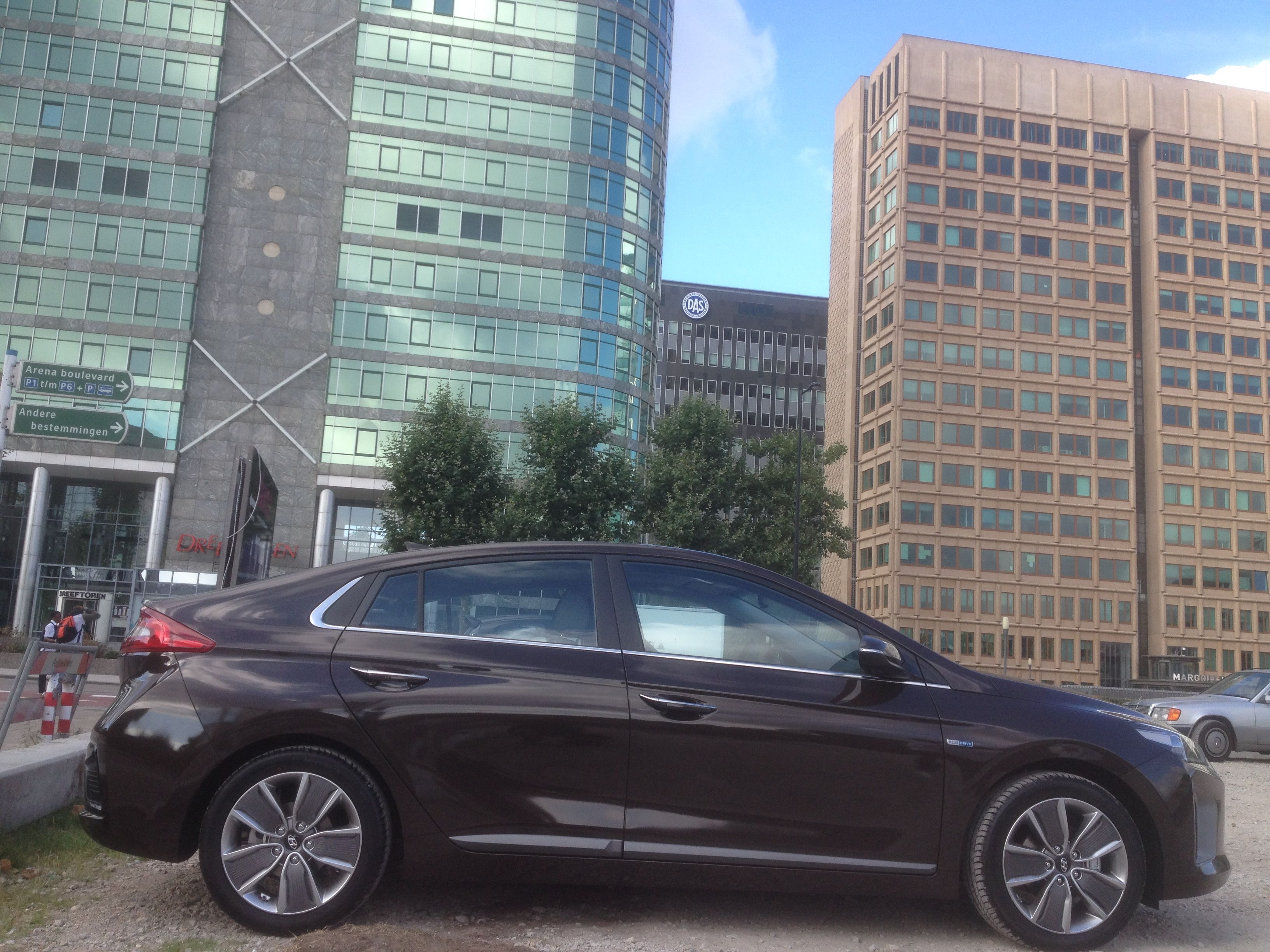 Hyundai Ioniq introduced in Netherlands @ArenaPark in Amsterdam-Zuidoost